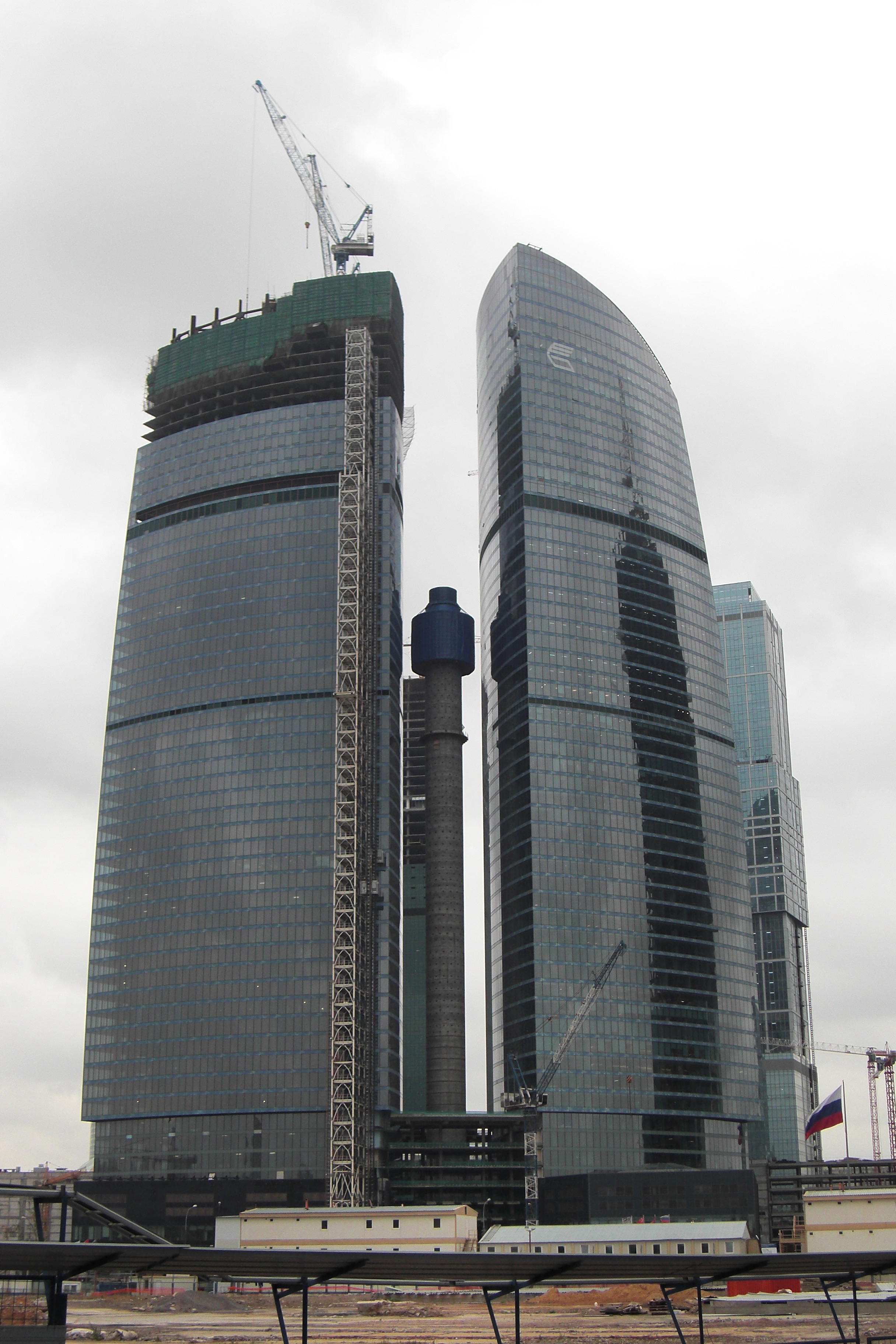 Federation Tower in October 2009